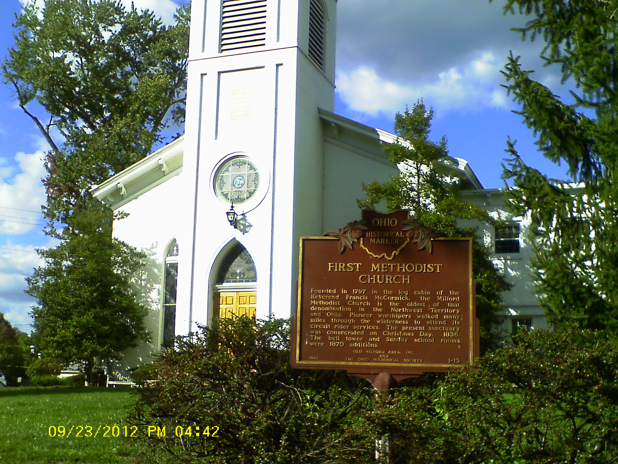 Home of the First Methodist Church of the Northwest Territory